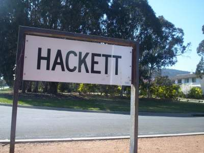 Hackett ACT I took the photo